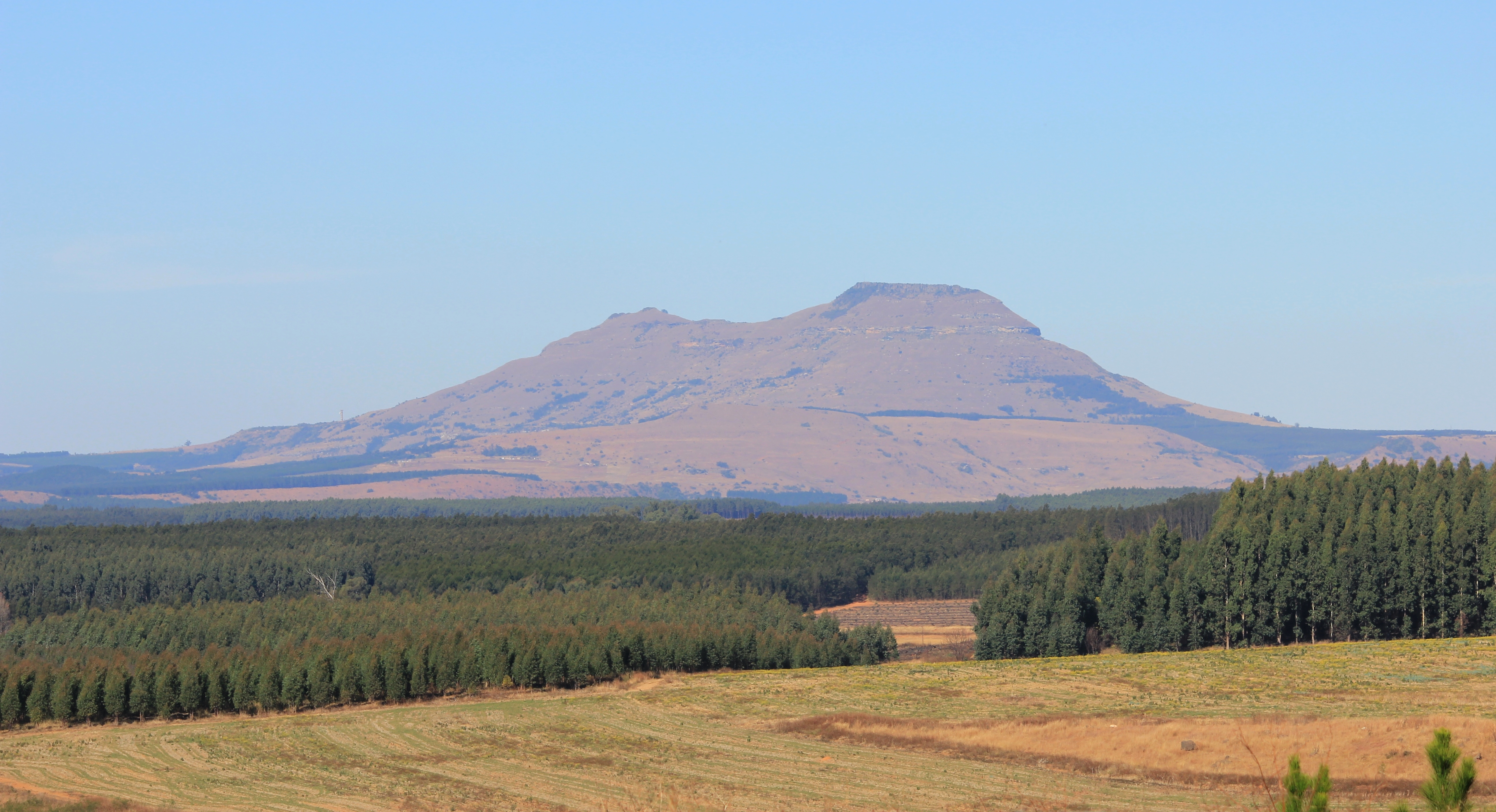 Makateeskop (1,737 m) is seen here from Lüneburg, some 16 km away. It is an easterly outlier of the Elandsberg highlands, on the right shoulder of the upper Phongolo River, KwaZulu-Natal. The Ignite Charcoal Factory is located in its foothills. The hill has also been known at times as Makati's Kop, Eloya or Ronde Kop, but perhaps it should be Makhata's Kop, as it appears to take its name from Makhatha ka Ndlukazi (also: Makhatha Shabalala) of the Shabalala clan of the Hlubi people.[1] They were descendants of the eMbo, who arrived here c. 1650. Makhatha was a Hlubi induna / commander-in-chief of the iziYendane regiment under King Bhungane II (ruled 1760–1800). The iziYendane, the most-feared regiment during his reign, was posted in this area along the northern border of Hlubi territory.[2] Consequently the hill's name does not suggest the Makatees (also: Mantatees), a completely different group native to the highveld, who were scattered during the Mfecane. ↑ a b (1997). "Hlobane: A new perspective". Natalia 27 (Natal Society Foundation, 2010): 42-68 (52, 66). Retrieved on 23 July 2019. ↑ a b Isizwe Samahlubi: Submission to the Commission on Traditional Leadership Disputes and Claims. 7. Estcourt, Natal (July 2004). Retrieved on 22 July 2019.